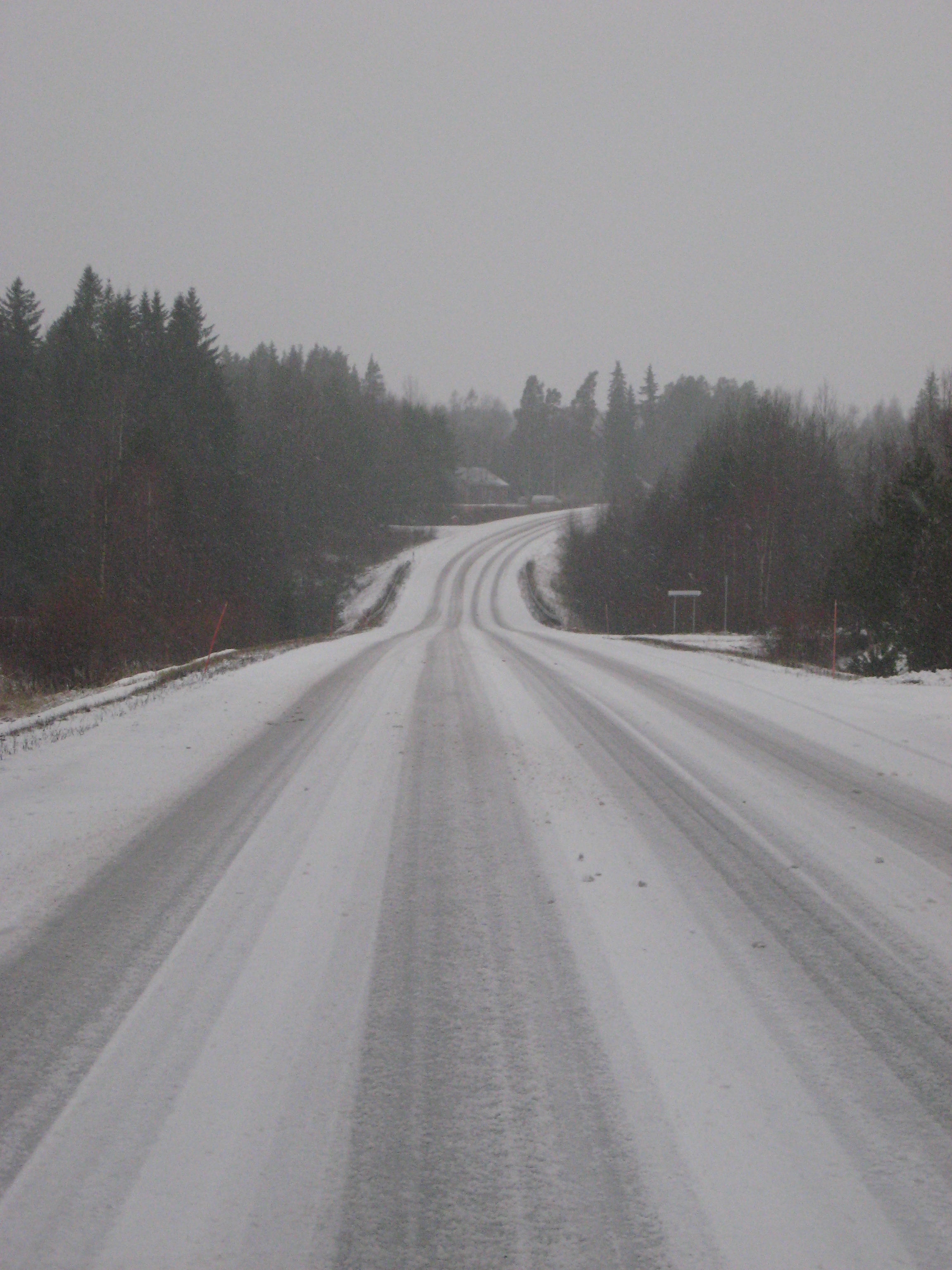 Tampereentie road (local road 17073; former highway 3) in Koskue village, Jalasjärvi, Finland.